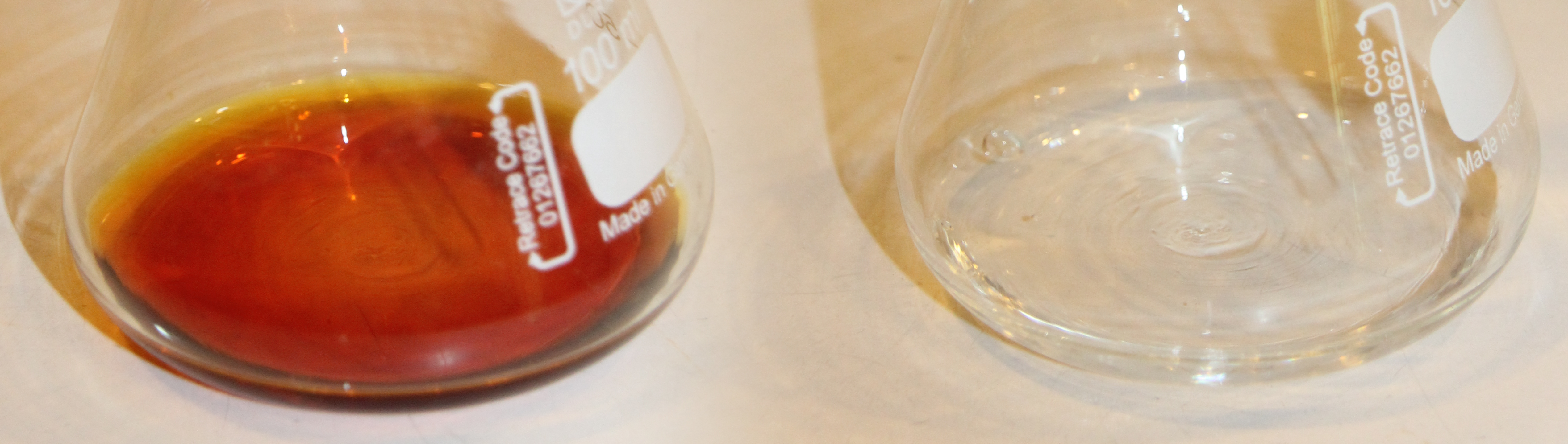 A photo showing the color of solution before (left) and after (right) the end point, in iodometric analysis